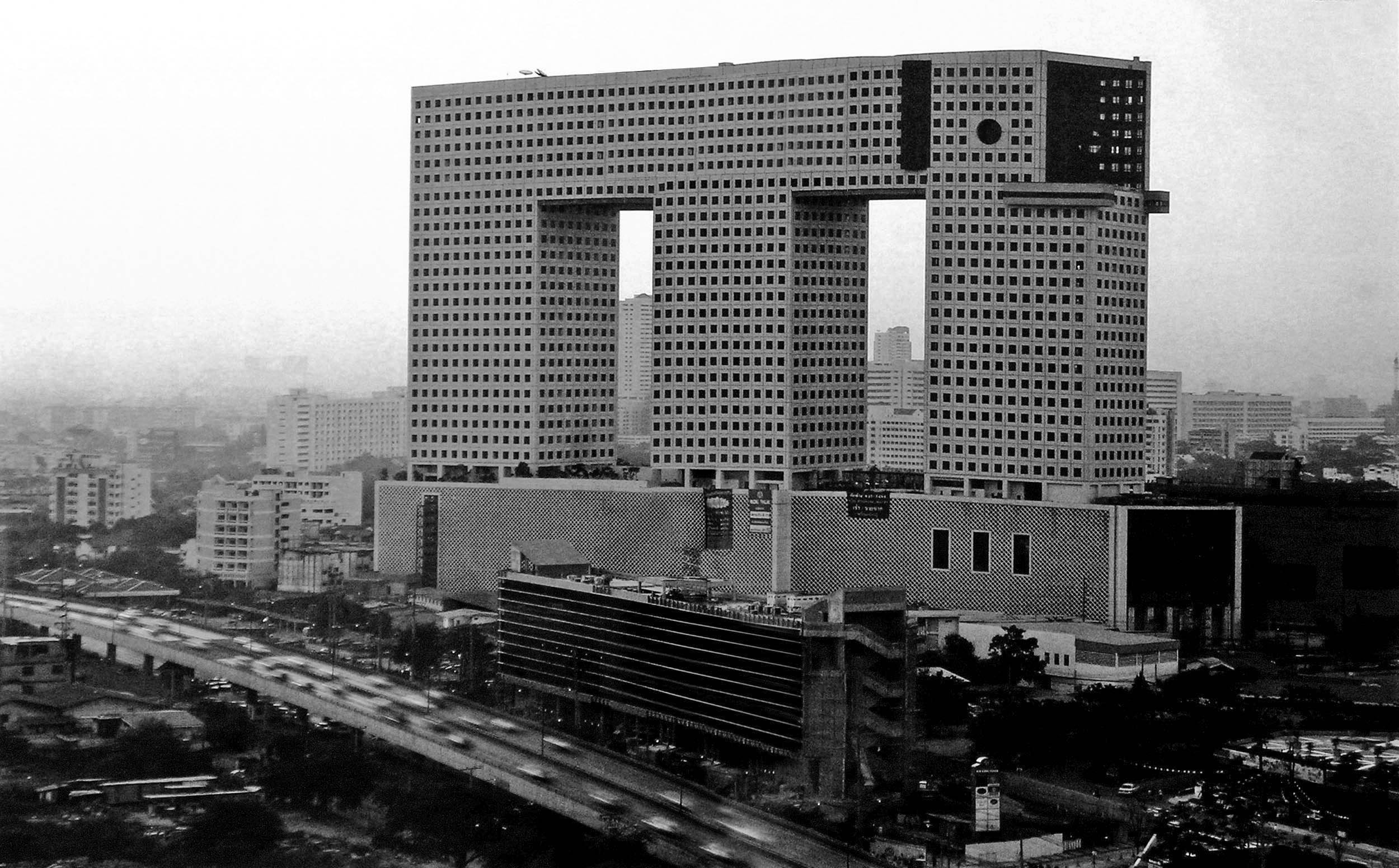 Elephant Building